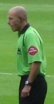 Howard Webb, English football referee refereeing the Arsenal vs. Watford match.